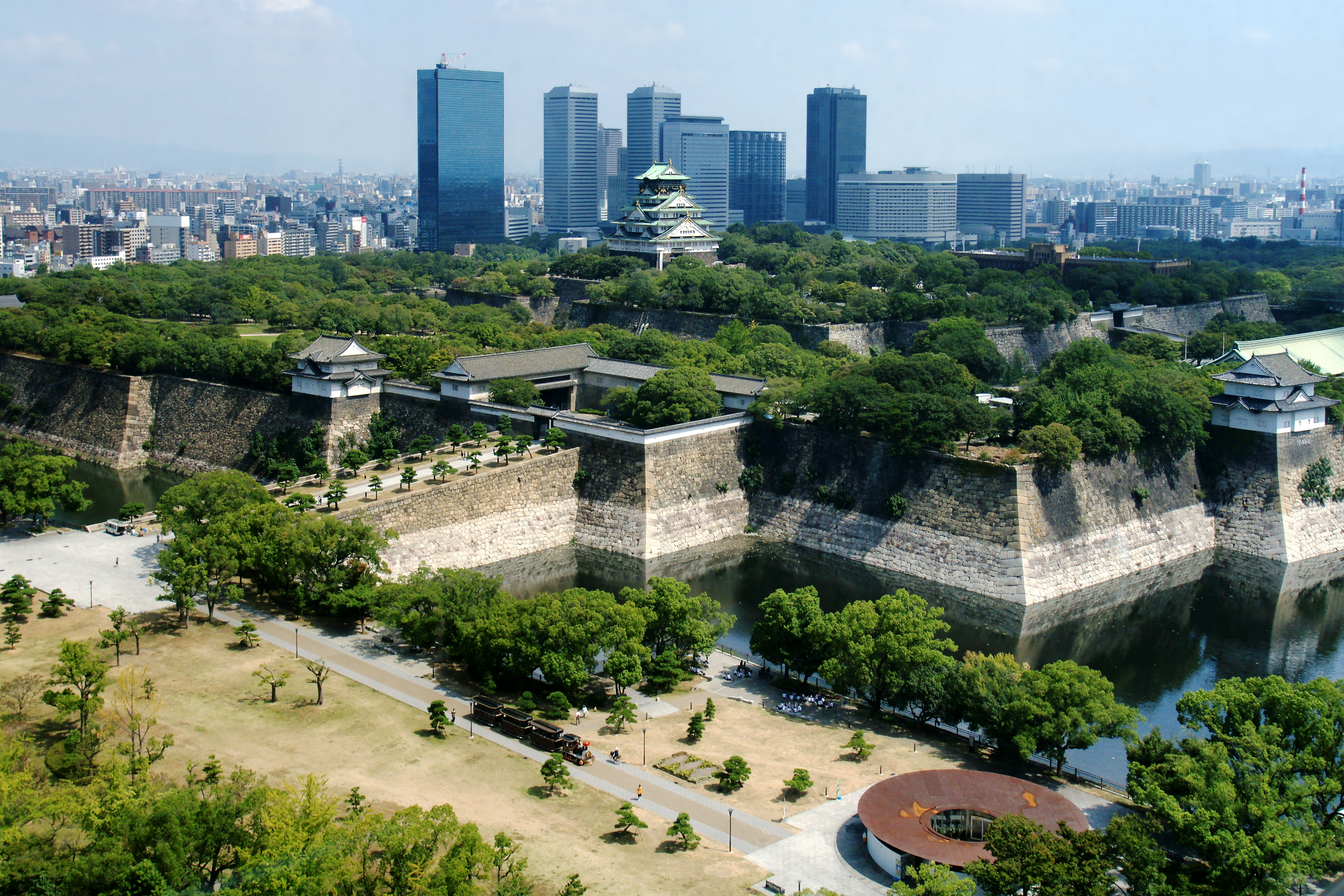 Osaka Castle in Chuo-ku, Osaka, Osaka prefecture, Japan